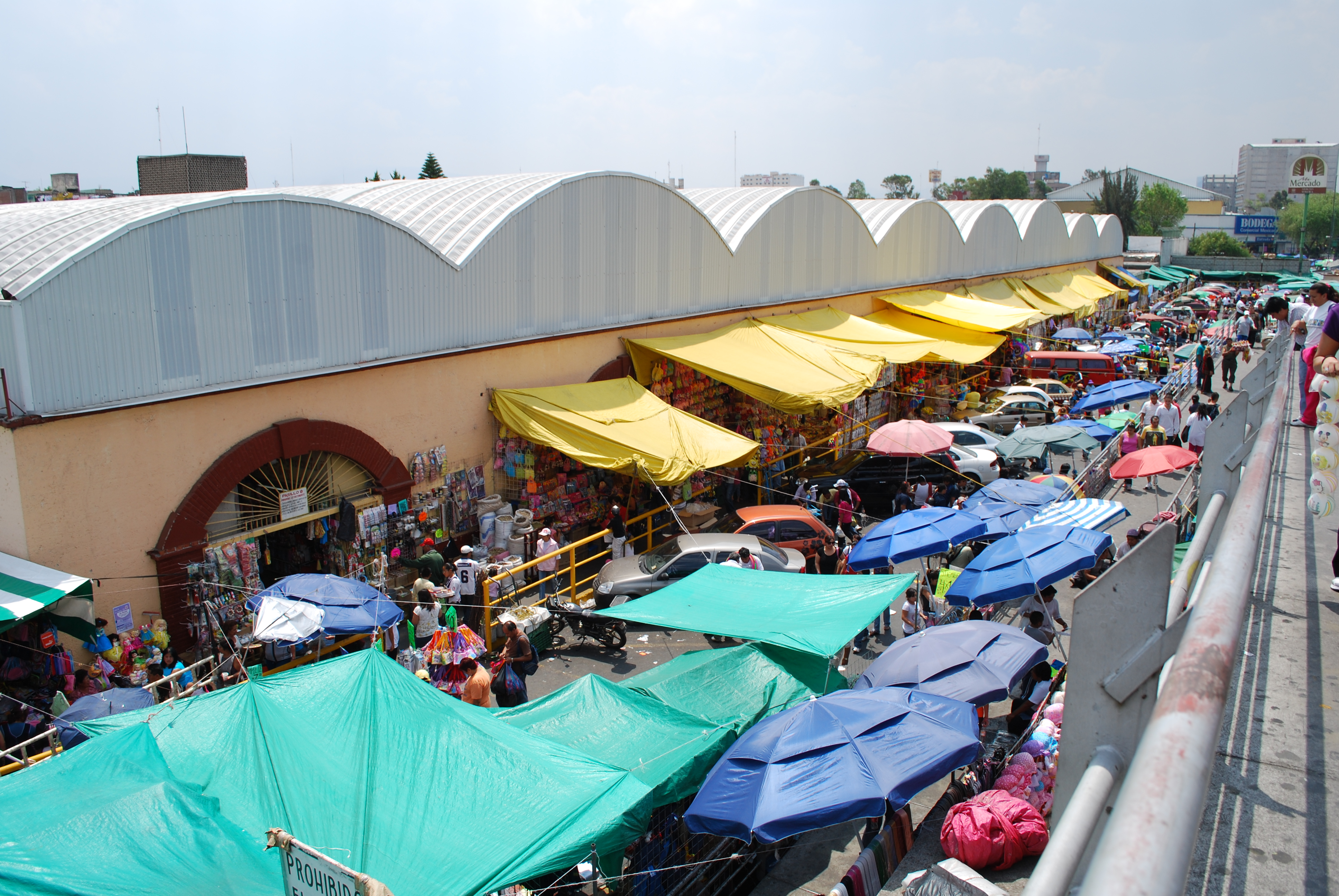 View of the facade of Mercado Sonora in Mexico City